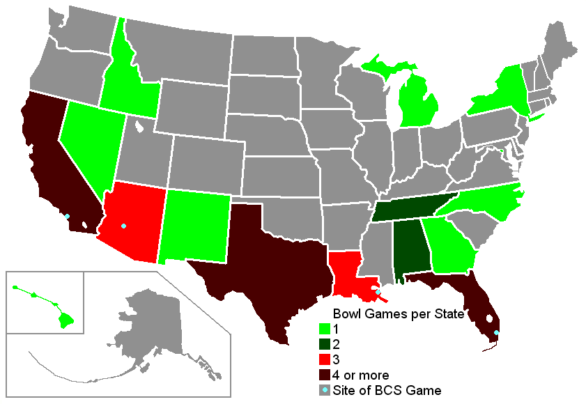 Map of states with 2010-11 NCAA football bowl games